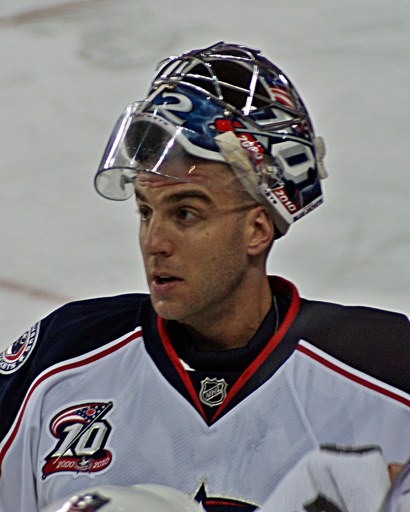 Mathieu Garon, born January 9, 1978 in Chandler, Quebec, is a Canadian professional ice hockey goaltender currently with the Columbus Blue Jackets of the National Hockey League. This NHL game action photo was taken December 13, 2010 at the Scotiabank Saddledome in Calgary, Alberta.